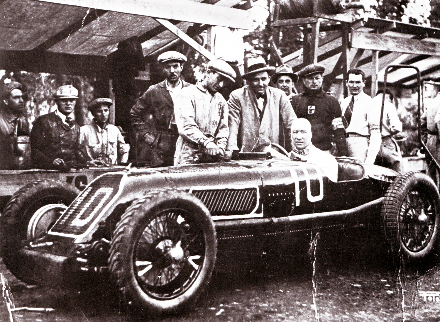 The Count Gastone Brilli Peri, car racer and world champion in 1925 in his Talbot race car